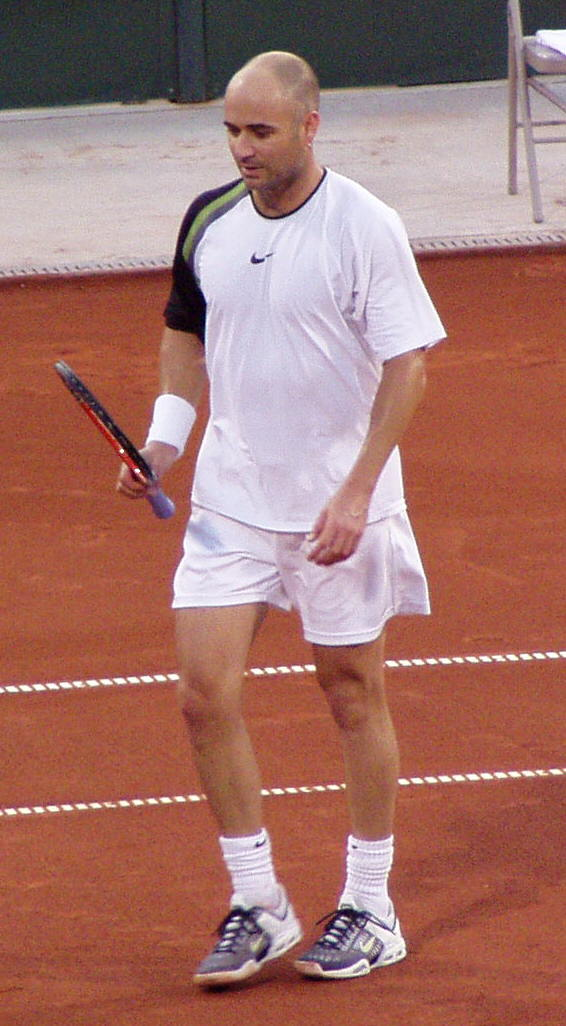 Andre Agassi at the US Mens Clay Court Championship. Houston, Texas.